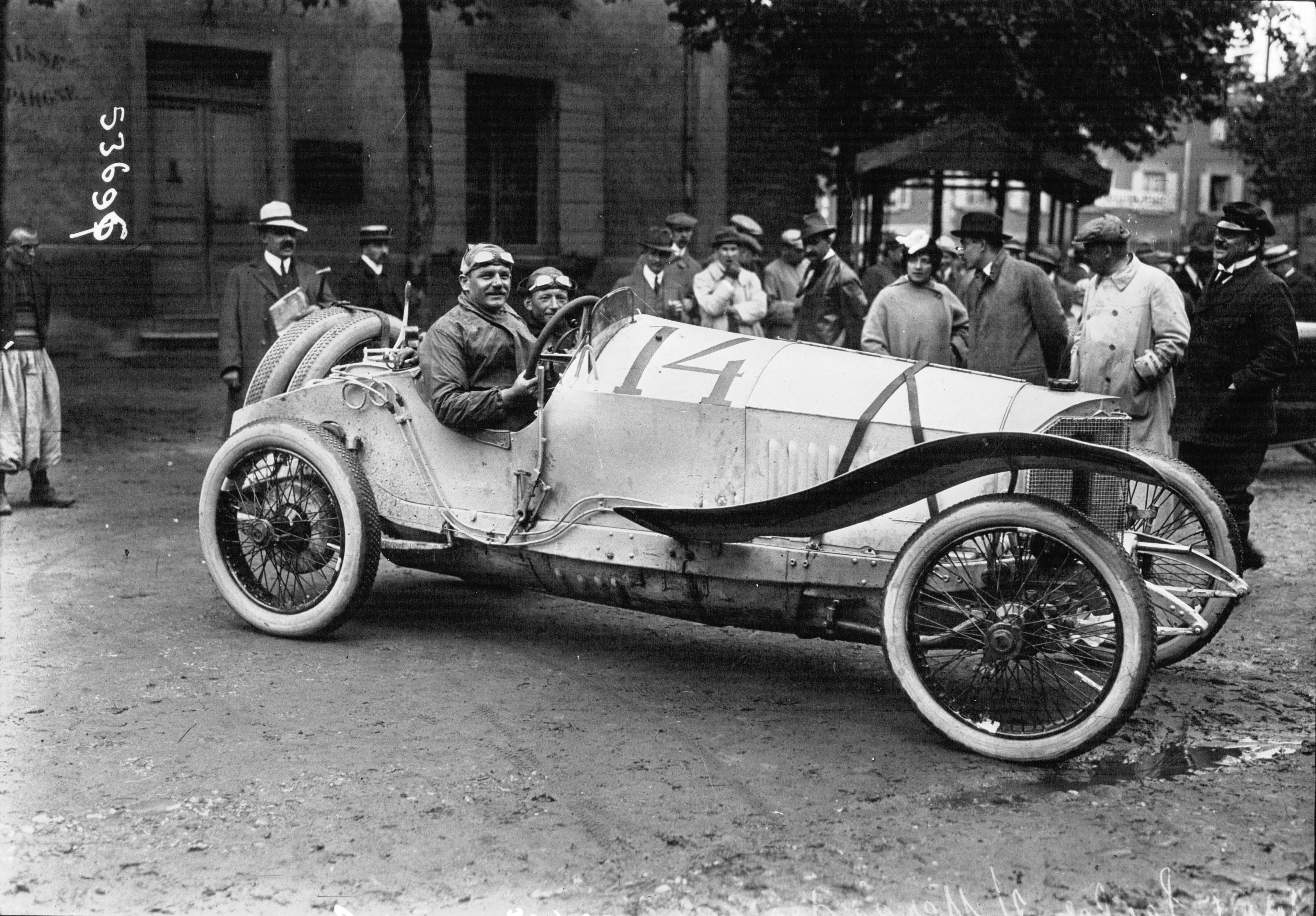 Max Sailer at the 1914 French Grand Prix